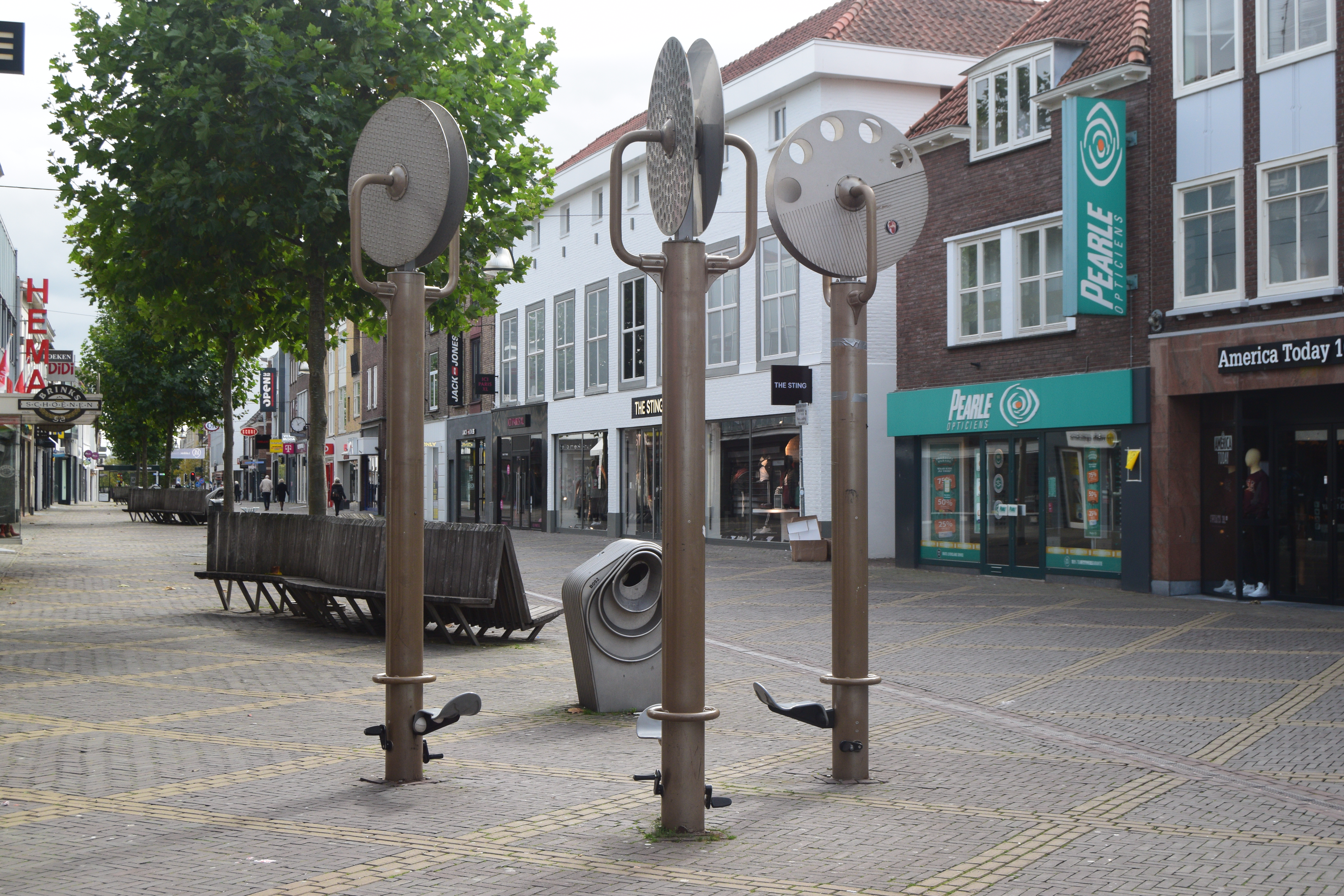 'Pedomobielen' by Theo van Koot, found in the Hamburgerstraat, Doetinchem (NL).